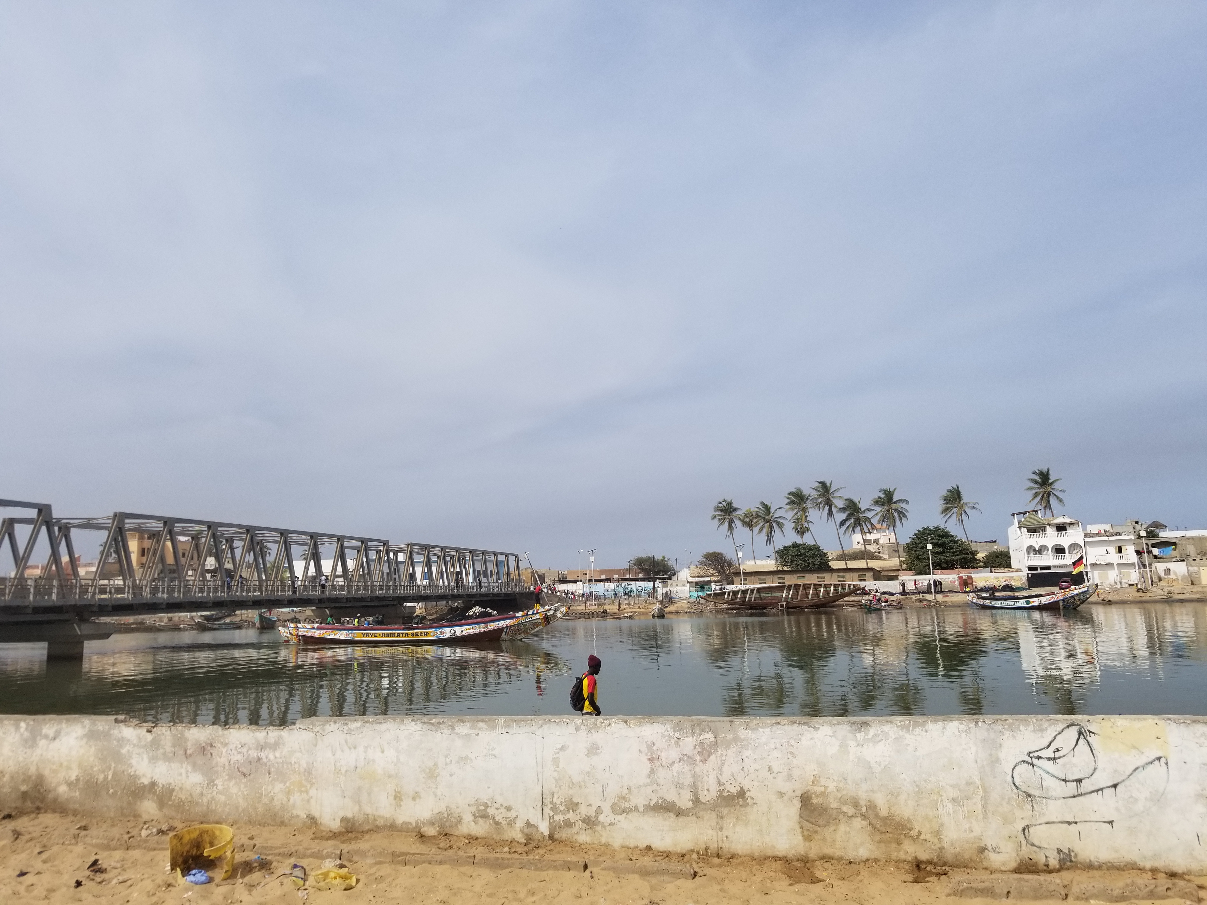 Bridge that connects 2 districts of Saint-Louis